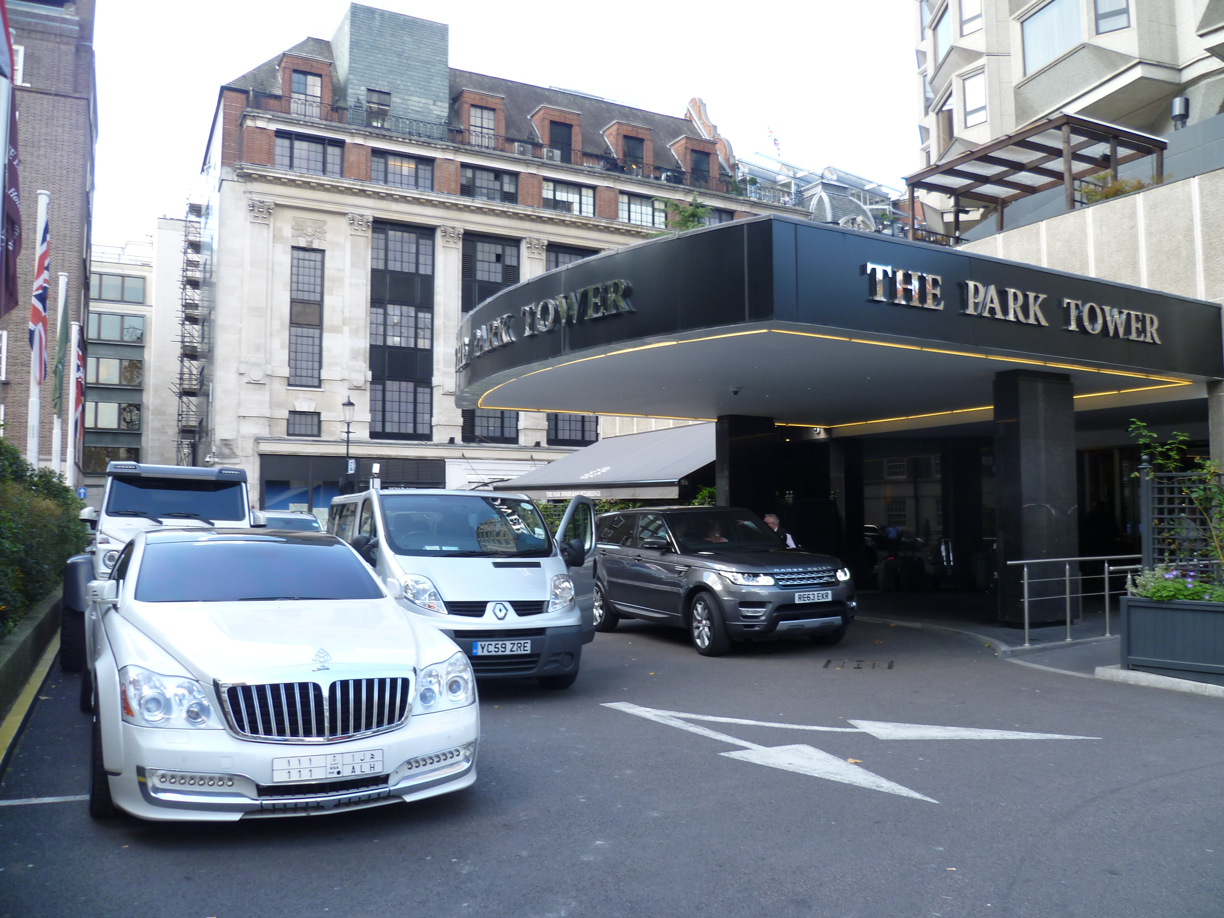 Park Tower Knightsbridge Hotel